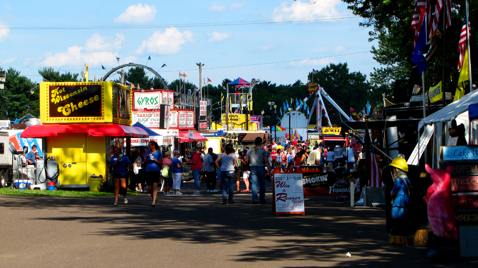 Entering The Grounds 1